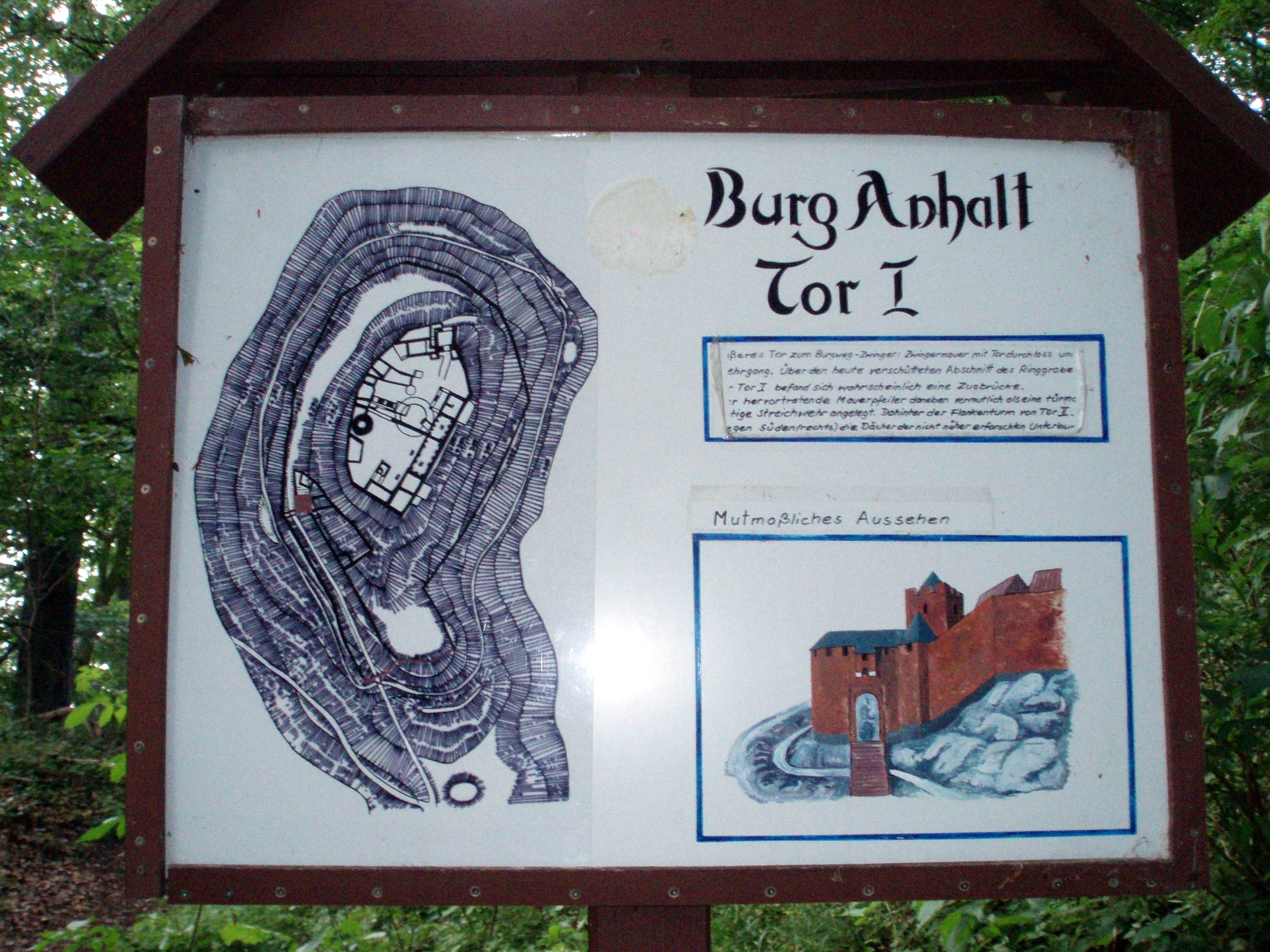 Information board at Gate I to Anhalt Castle showing the castle layout. Saxony-Anhalt, Germany